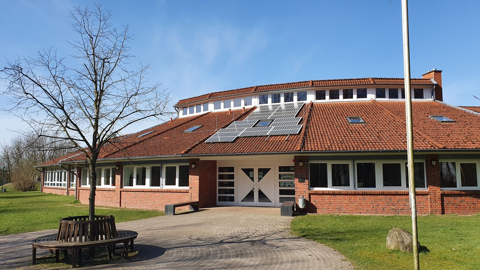 Elementary School Wistedt